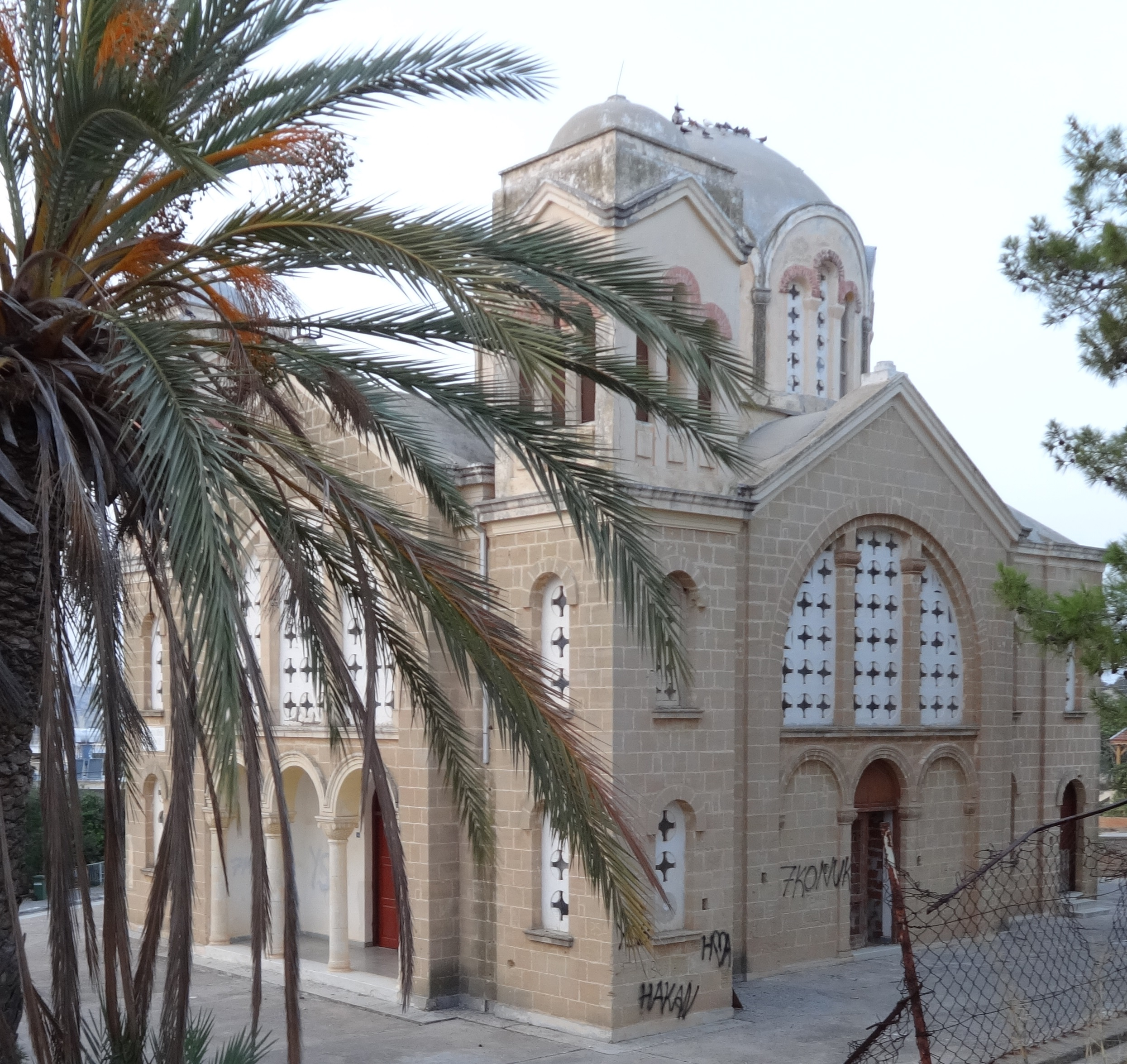 Ayios Sergios church in Tavros, Cyprus, situated at the east end of the village, on the old Nicosia-Karpas road. Photograph taken from higher ground next to Ayios Sergios, looking north-east.